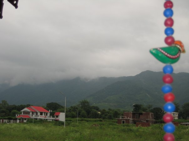 Garhwal is known for scenic beauty.